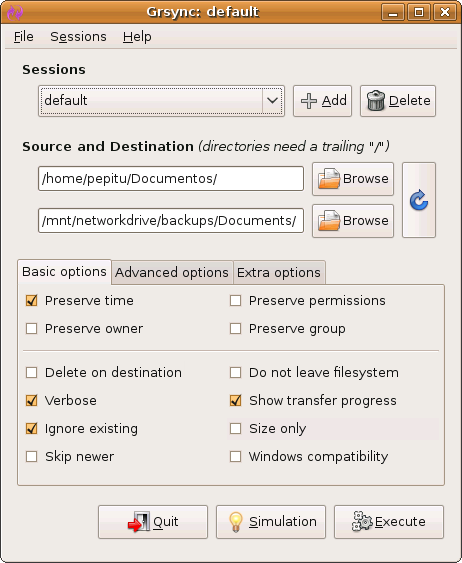 A screenshot of grsync, the graphical front end for rsync, a useful GPL command line tool for file transfers on GNU/linux systems. Here a backup is being made of the Documents folder to a remote network drive (which was mounted using smbmount). For instructions, see the tutorial at [1]